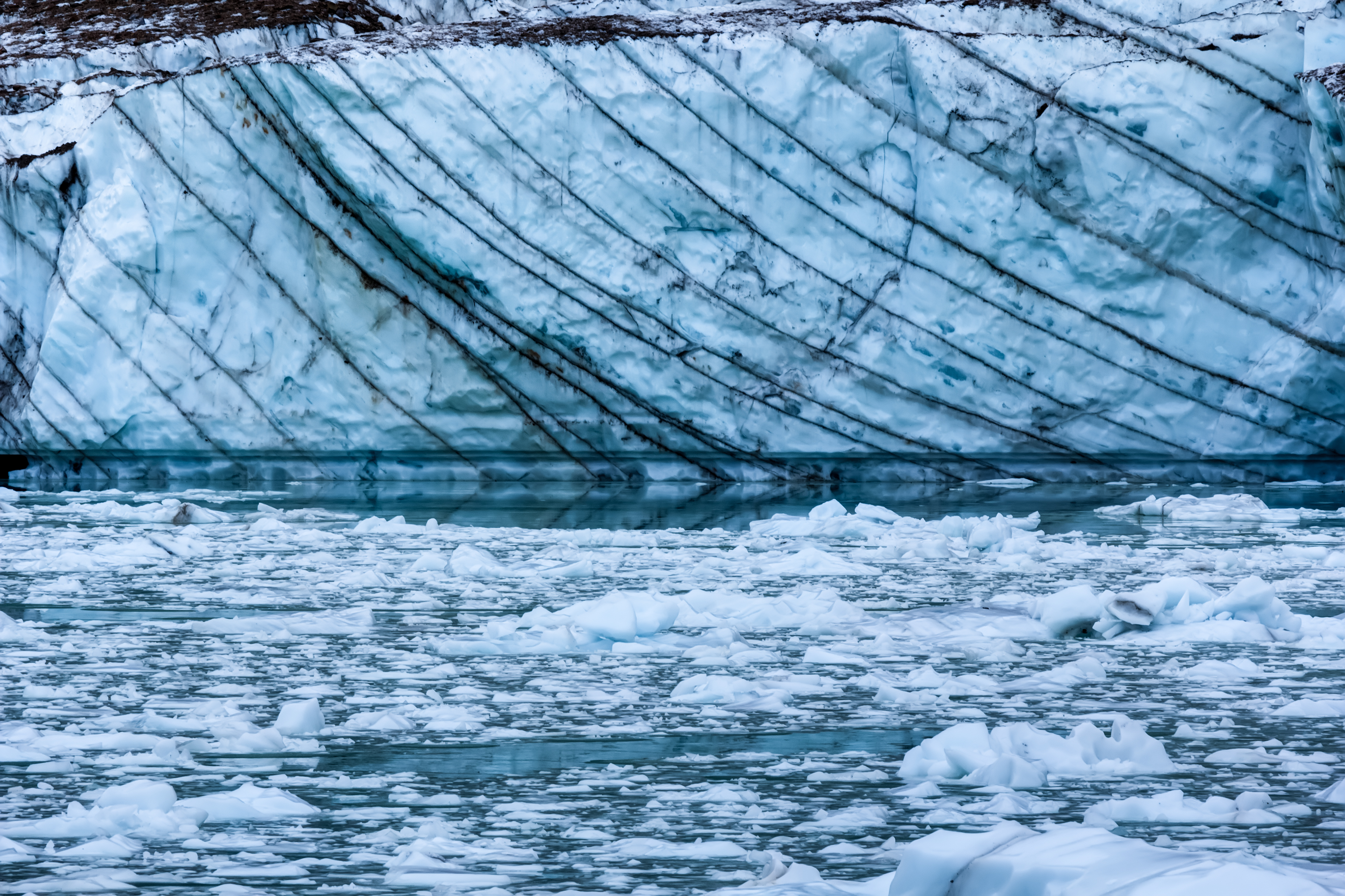 Glacier Angel, Alberta, Canada